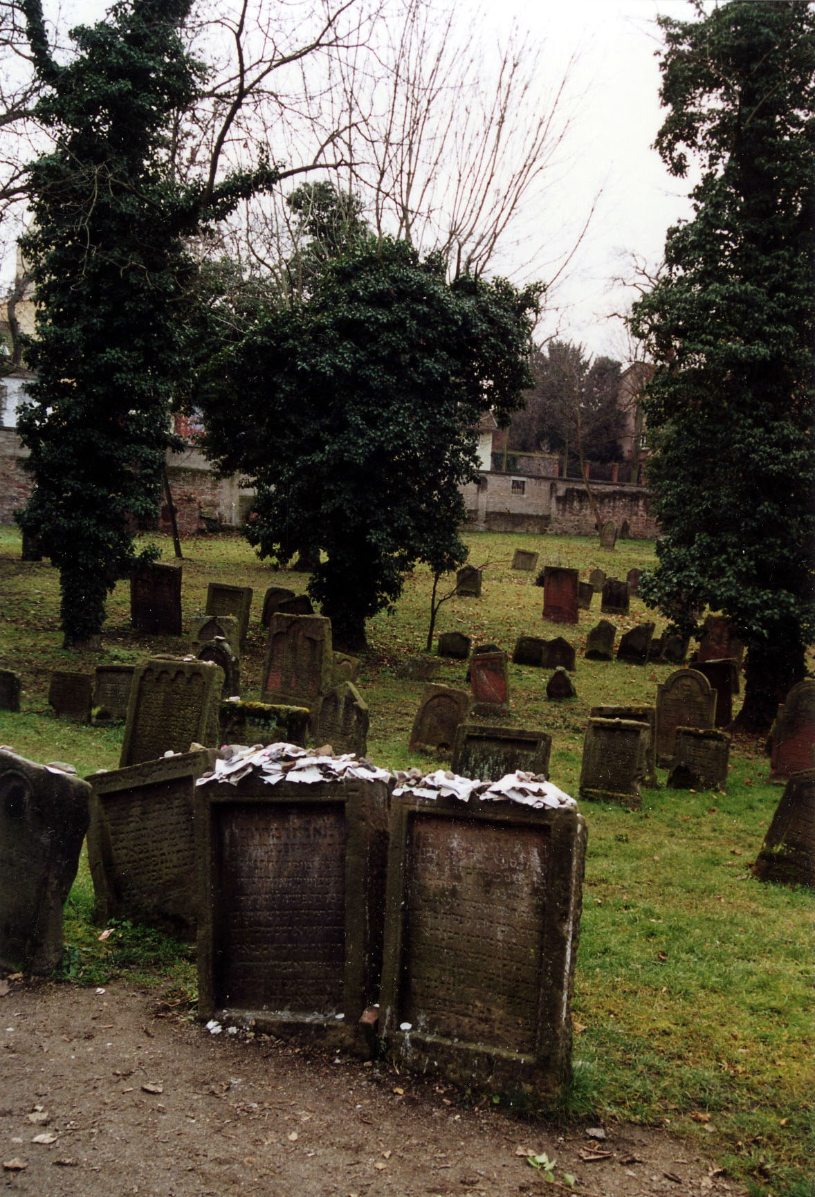 View of the jewish cemetery in Worms, Germany, tomb of Meir of Rothenburg